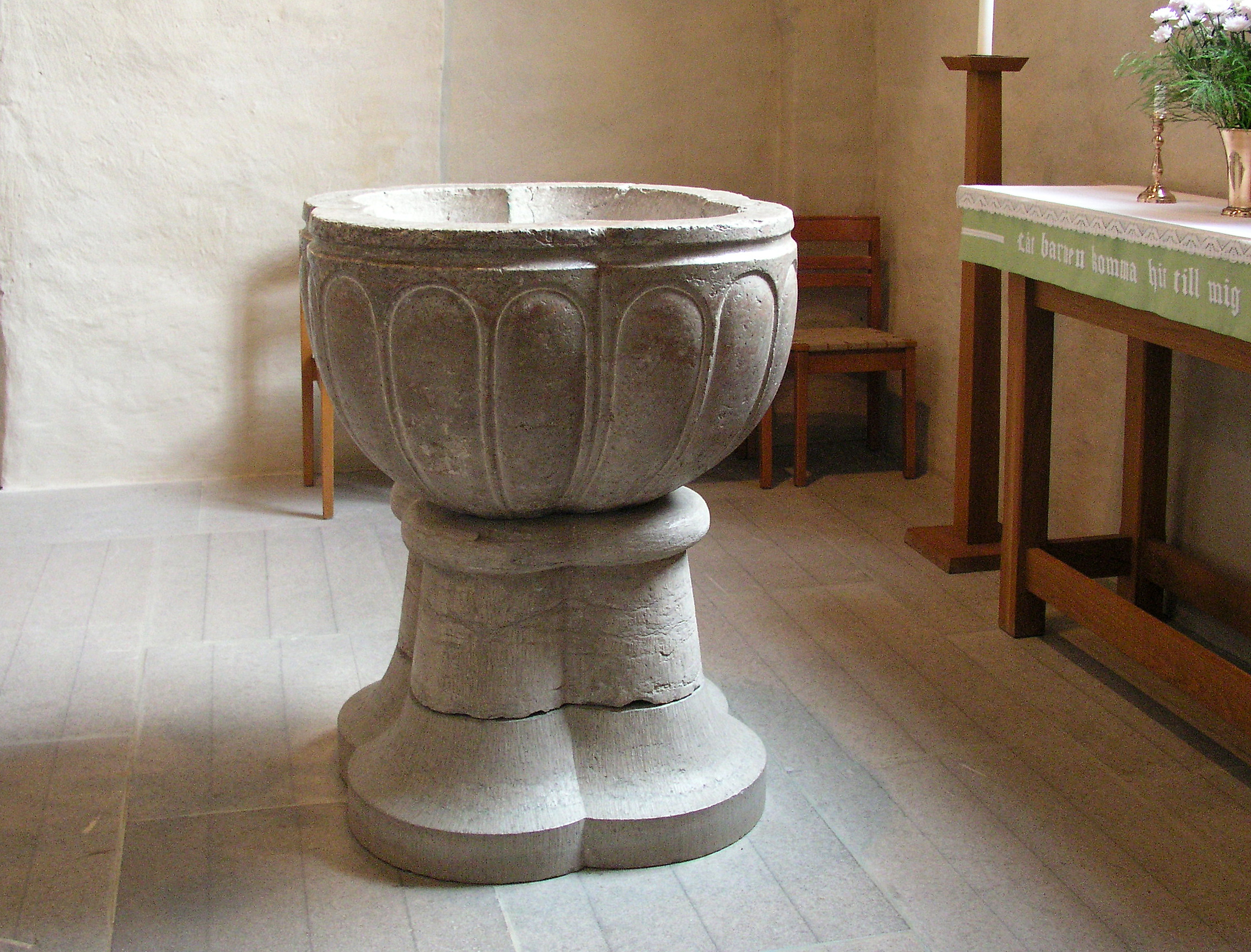 Vreta kloster kyrka. Baptismal font. The photo was taken by Håkan Svensson (Xauxa) the 28th September 2003.